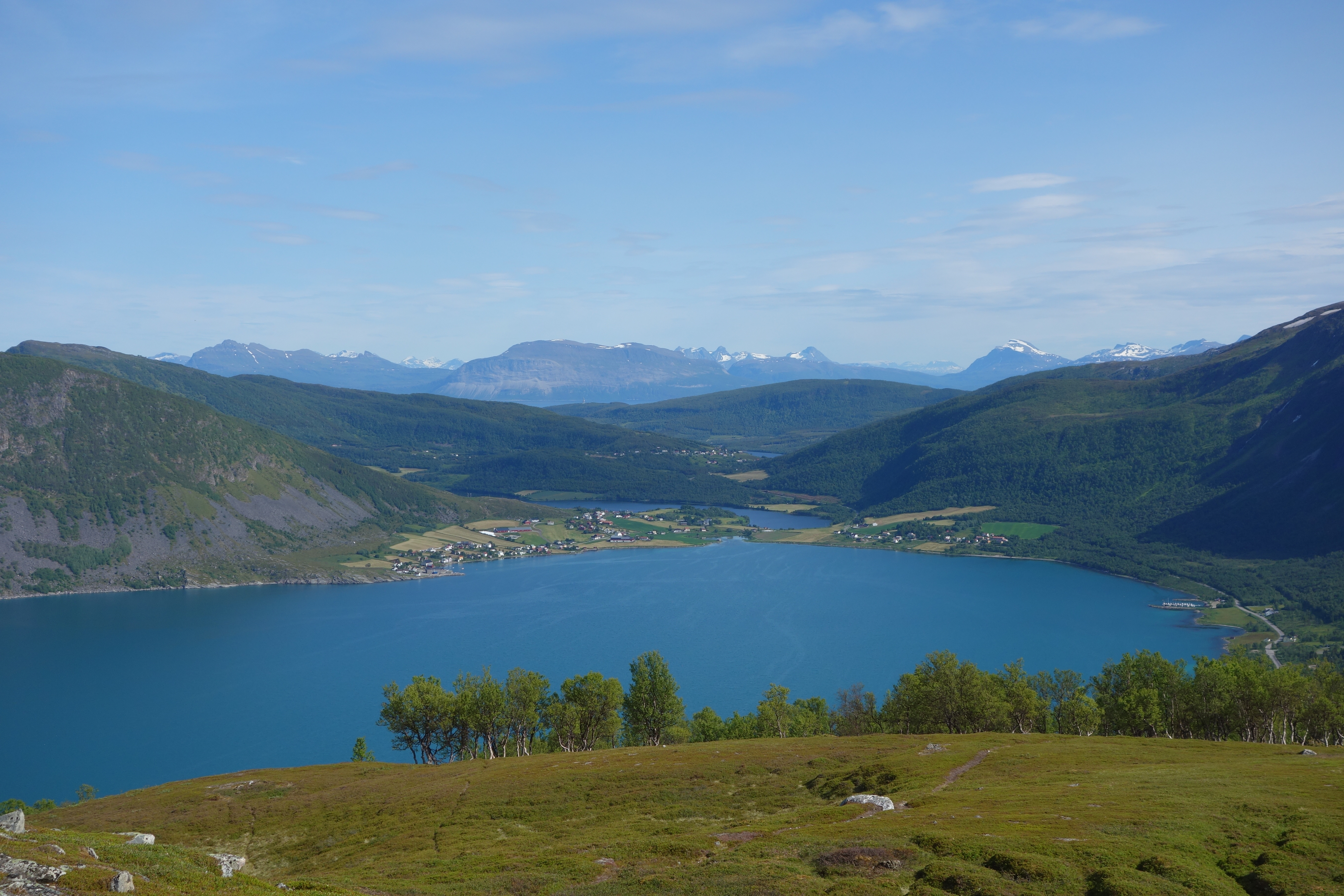 The fjord and the village Kasfjord seen from the hill Nupen (412 mamsl). Municipality of Harstad, Troms county, Norway